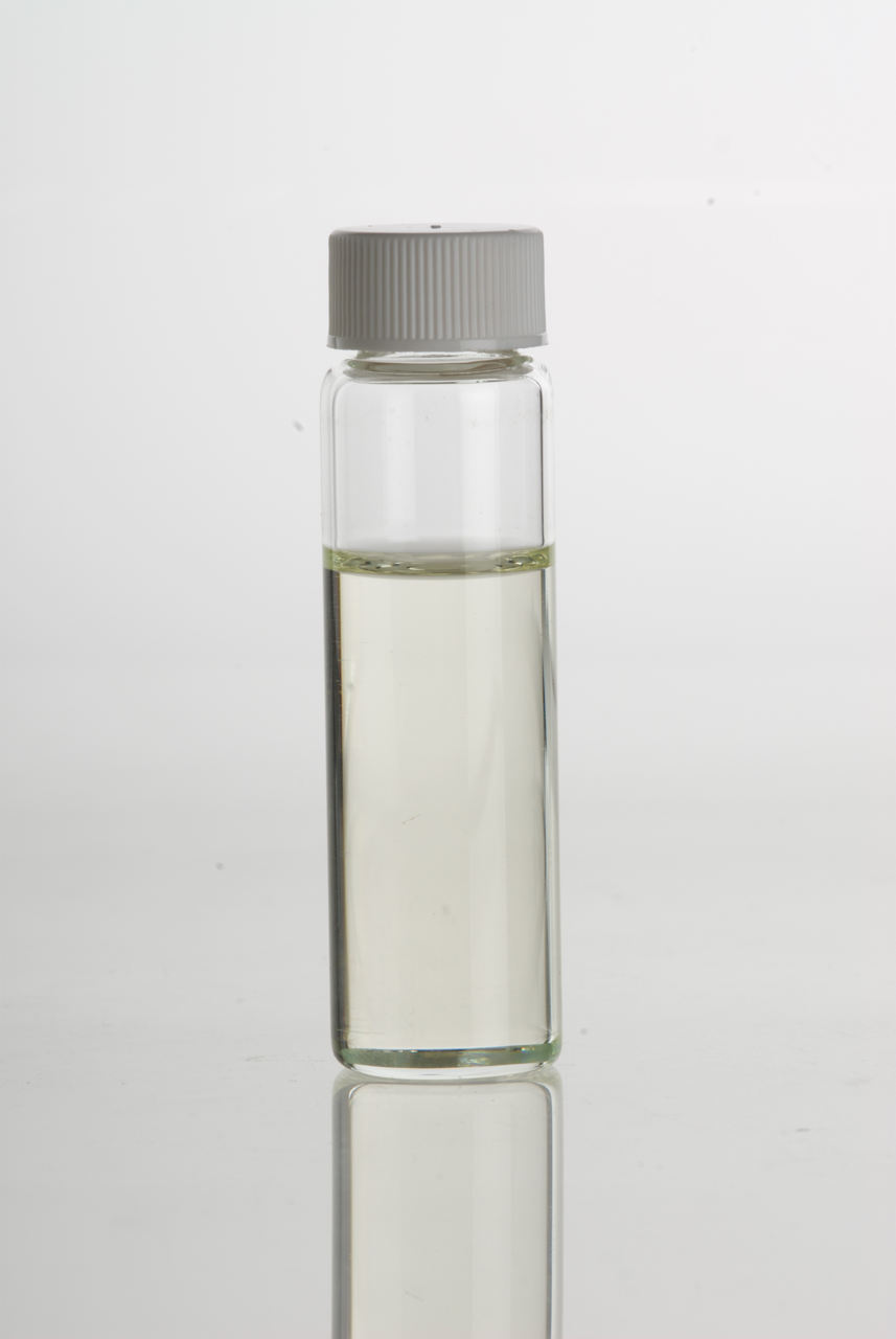 Tsuga (Tsuga canadensis) Essential Oil in clear glass vial